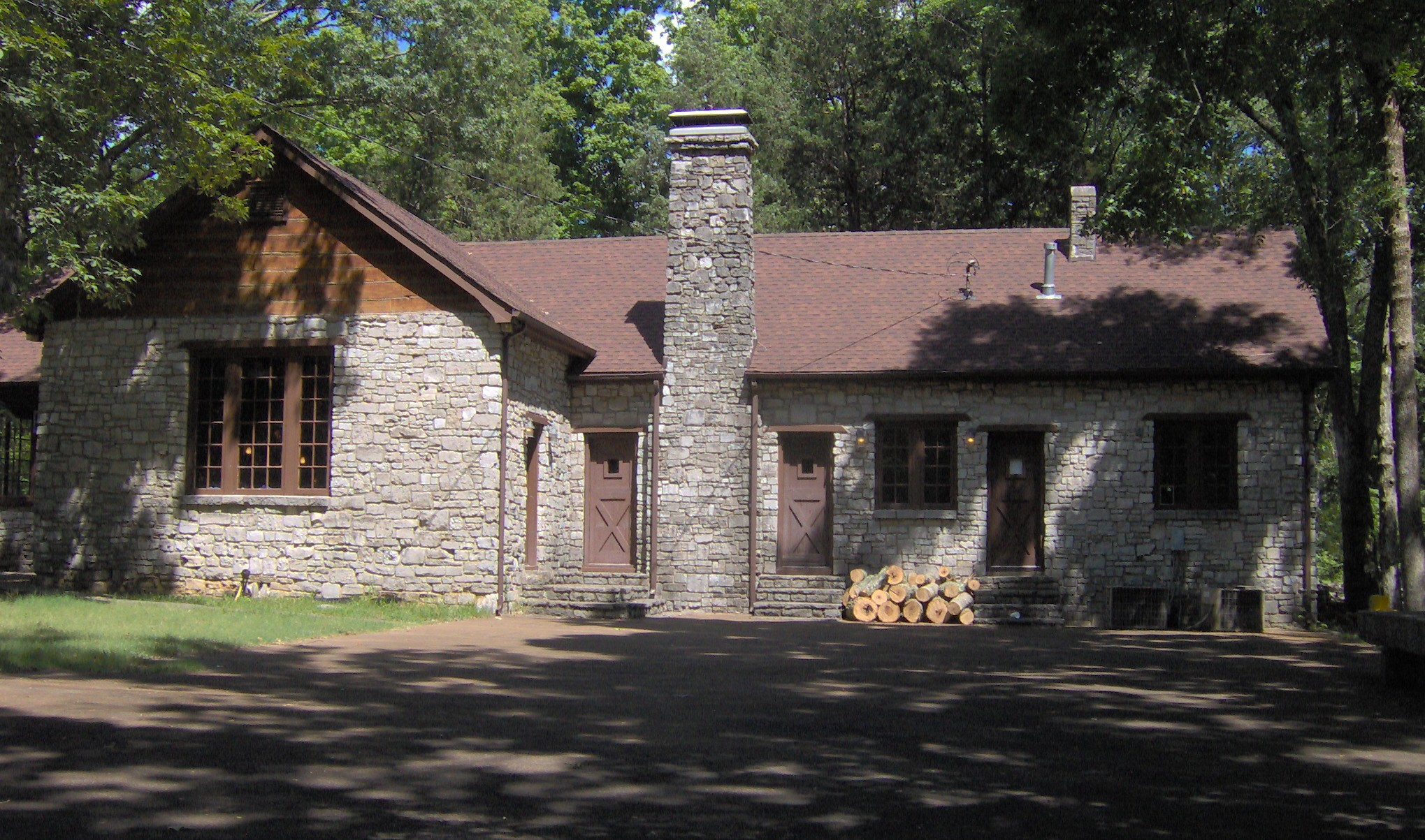 Cedar Lodge at Cedars of Lebanon State Park in Wilson County, Tennessee, in the southeastern United States. Cedar Lodge is one of several Works Projects Administration buildings built in the 1930s and 1940s that were placed on the National Register of Historic Places in 1995.